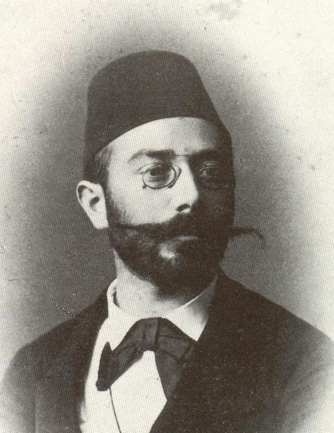 Eduard Glaser (1855-1908) around 1882